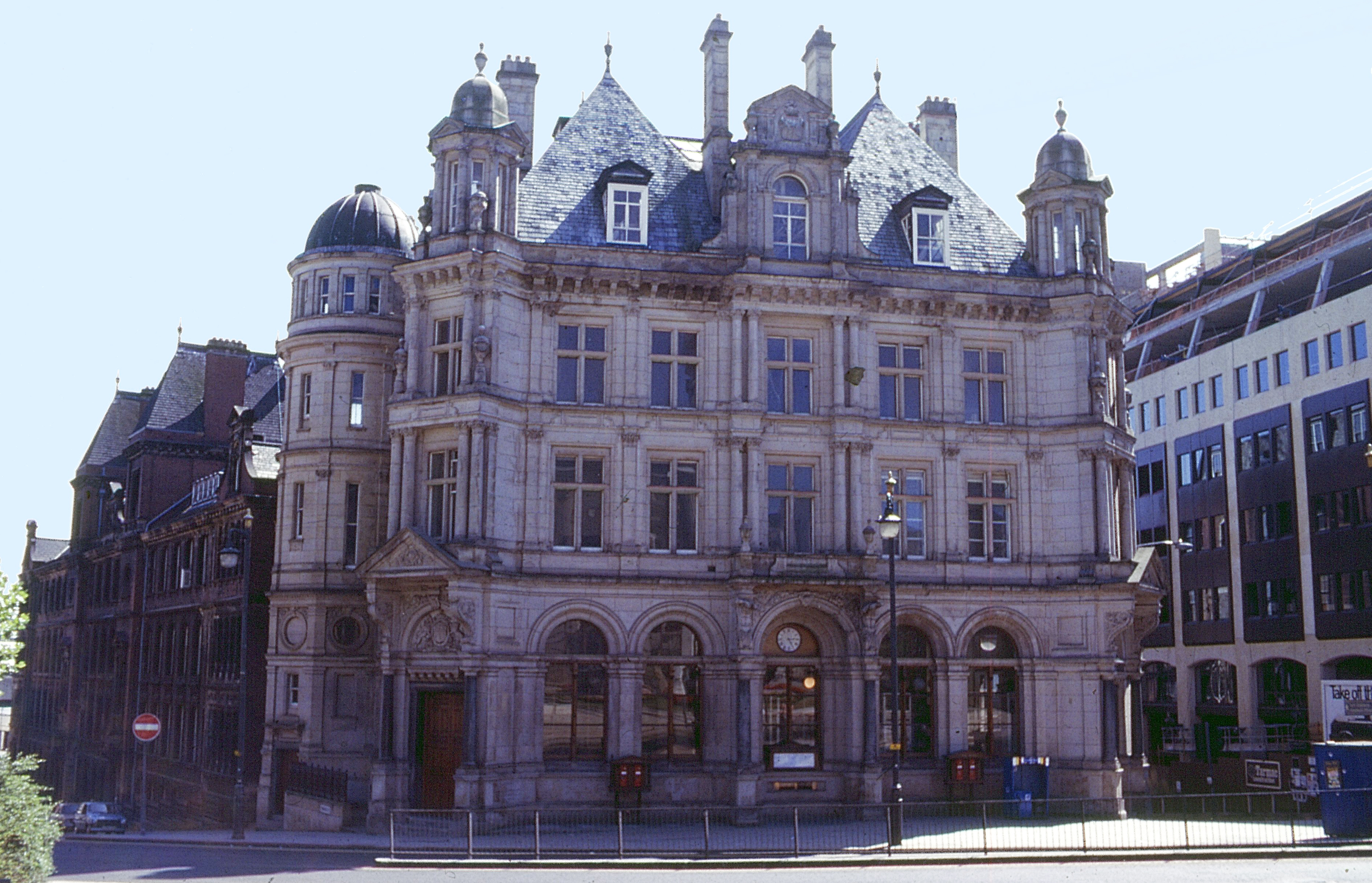 Victoria Square House - the former Birmingham Head Post Office - in Birmingham, England. The building is seen after cleaning and before demolition of the rear sorting office building. Note that the central arch is not yet a doorway. The newly-built One Victoria Square, on the site of the former parcel office, is visible to the right.